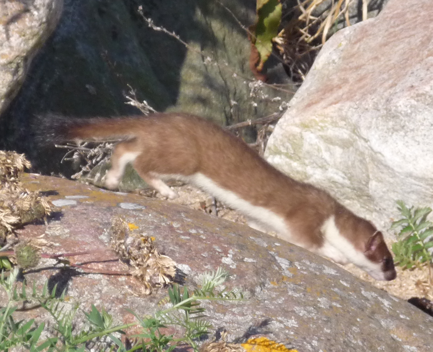 Mustela erminea. Picture taken in northern part of Muhu, Saare county, Estonia, Europe.